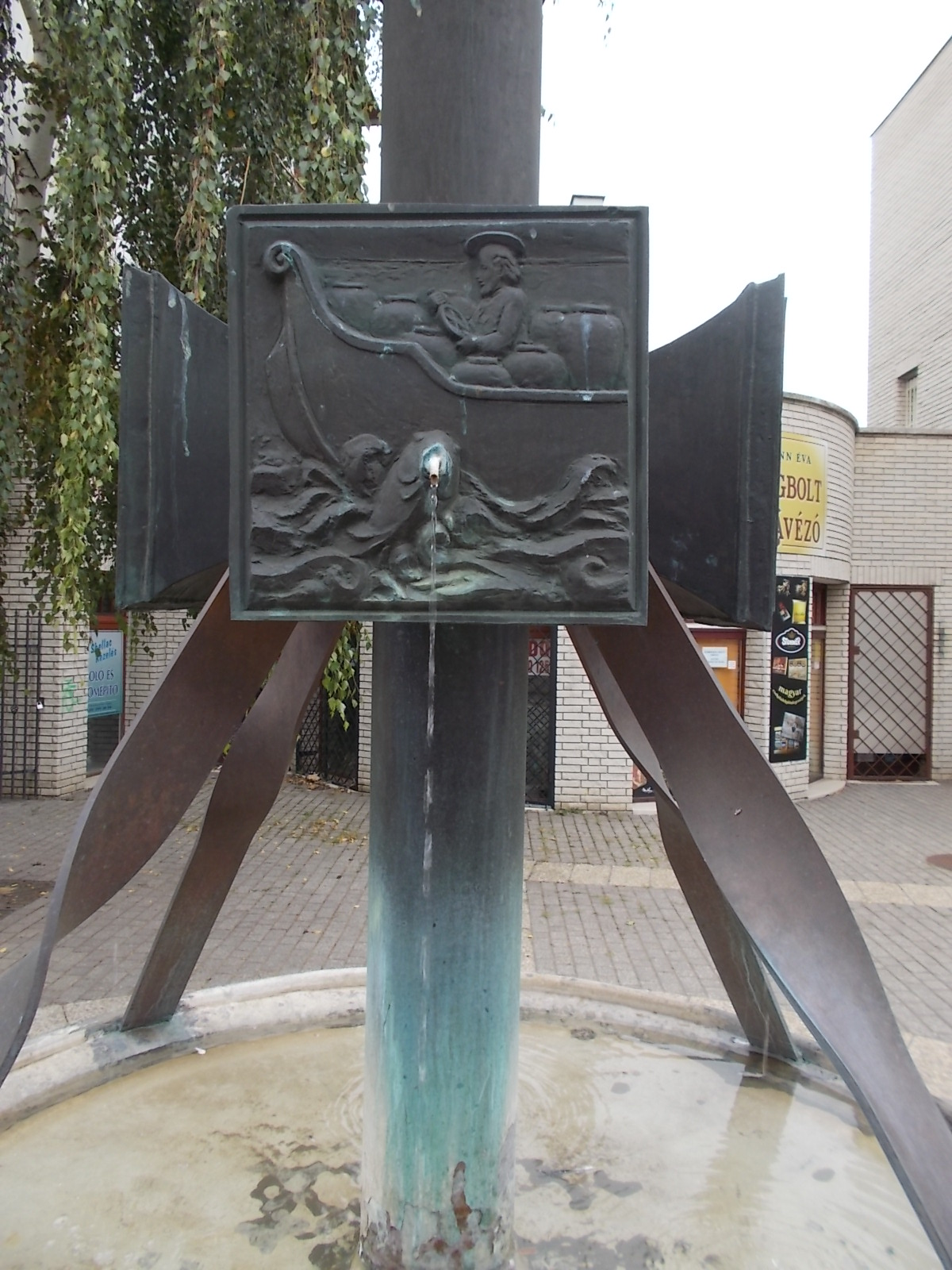 Saint Nicholas drinking fountain by Sándor Tóth ( 1996 Bronze statue) There are four reliefs on the drinking fountain column, One is labeled cca. "with God in 1996, the thirsty" (Bishop of St. Nicholas Myra 270-341), the other three reliefs shows episodes from the life of the bishop. - Szent Miklós Sq., Nyíregyháza, Szabolcs-Szatmár-Bereg County, Hungary.